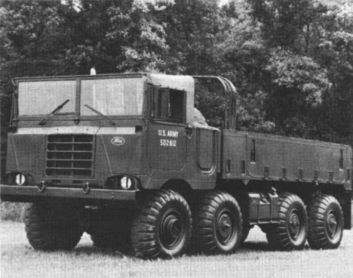 A U.S. Army Ford XM656 truck, circa 1965. It became the standard 5-ton truck in April 1966. The truck was powered by a 195 hp Cummins LDS465-2 multifuel turbo-diesel engine with 7.83 litres engine displacement. Some 500 were built in 1968-69.